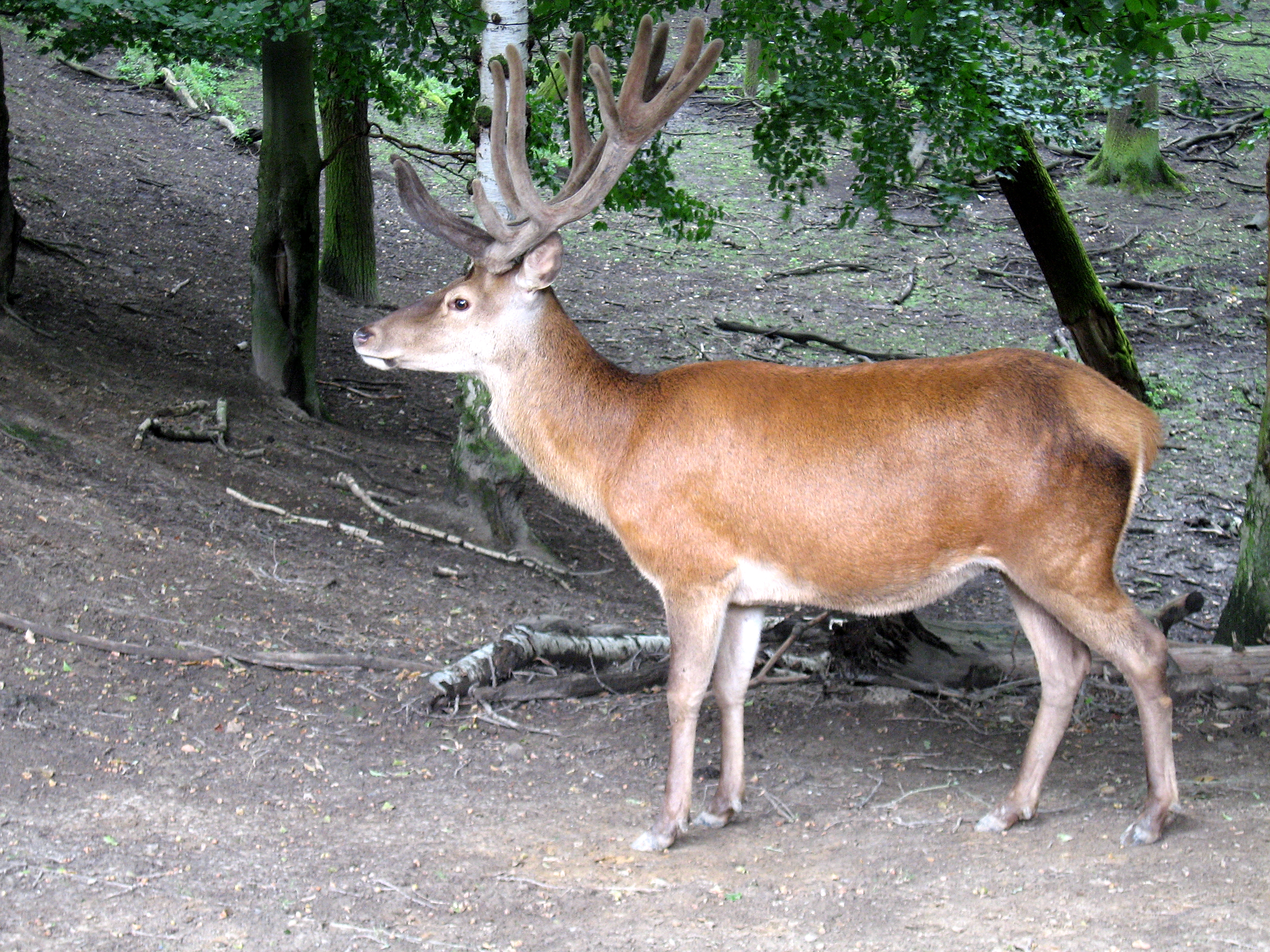 Dortmund, Tierpark, Rotwild (Cervus elaphus)